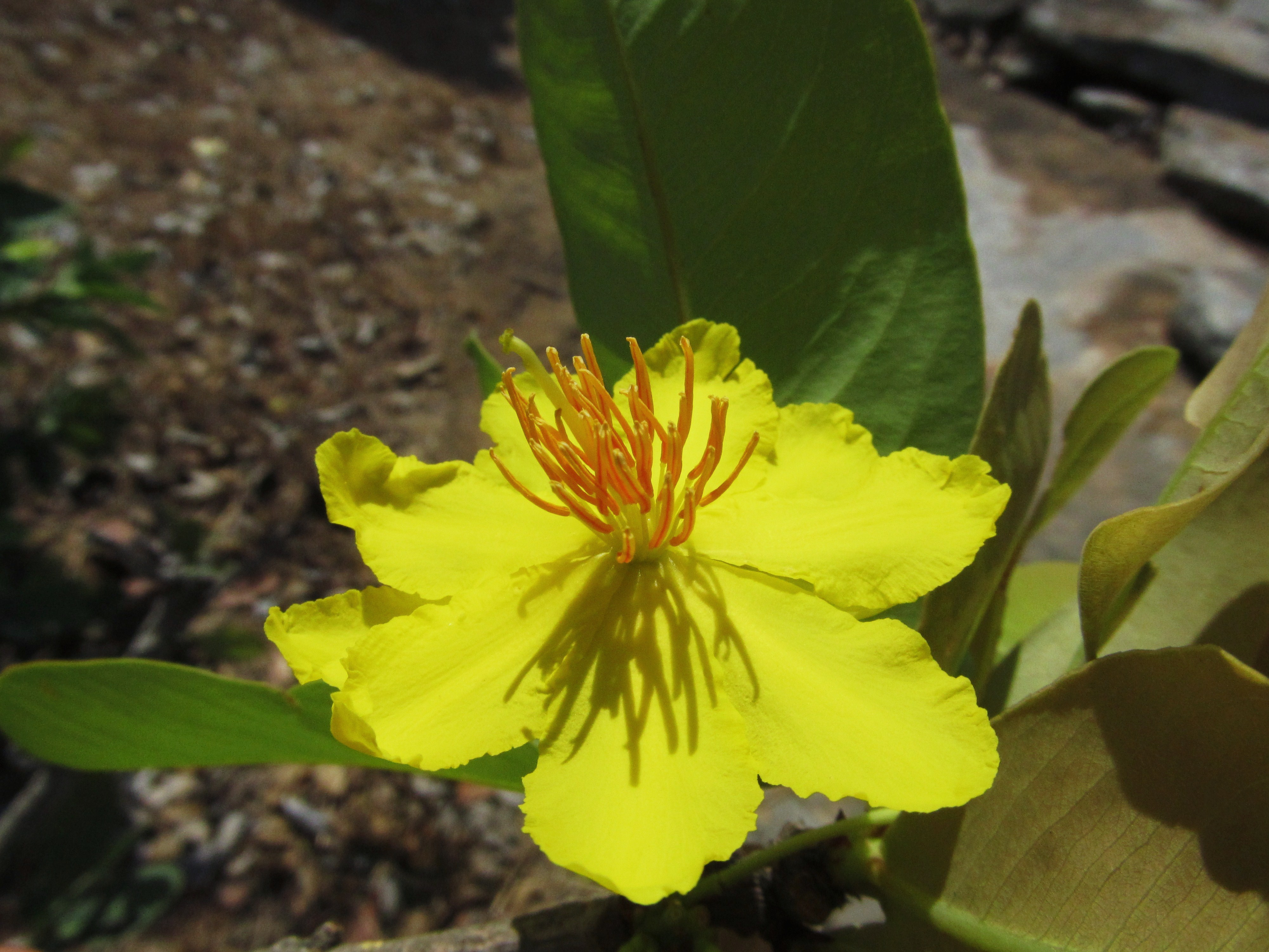 Tree belonging to the family Ochnaceae Photo taken in Camp GeeDee, Bannerghatta National Park, Karnataka